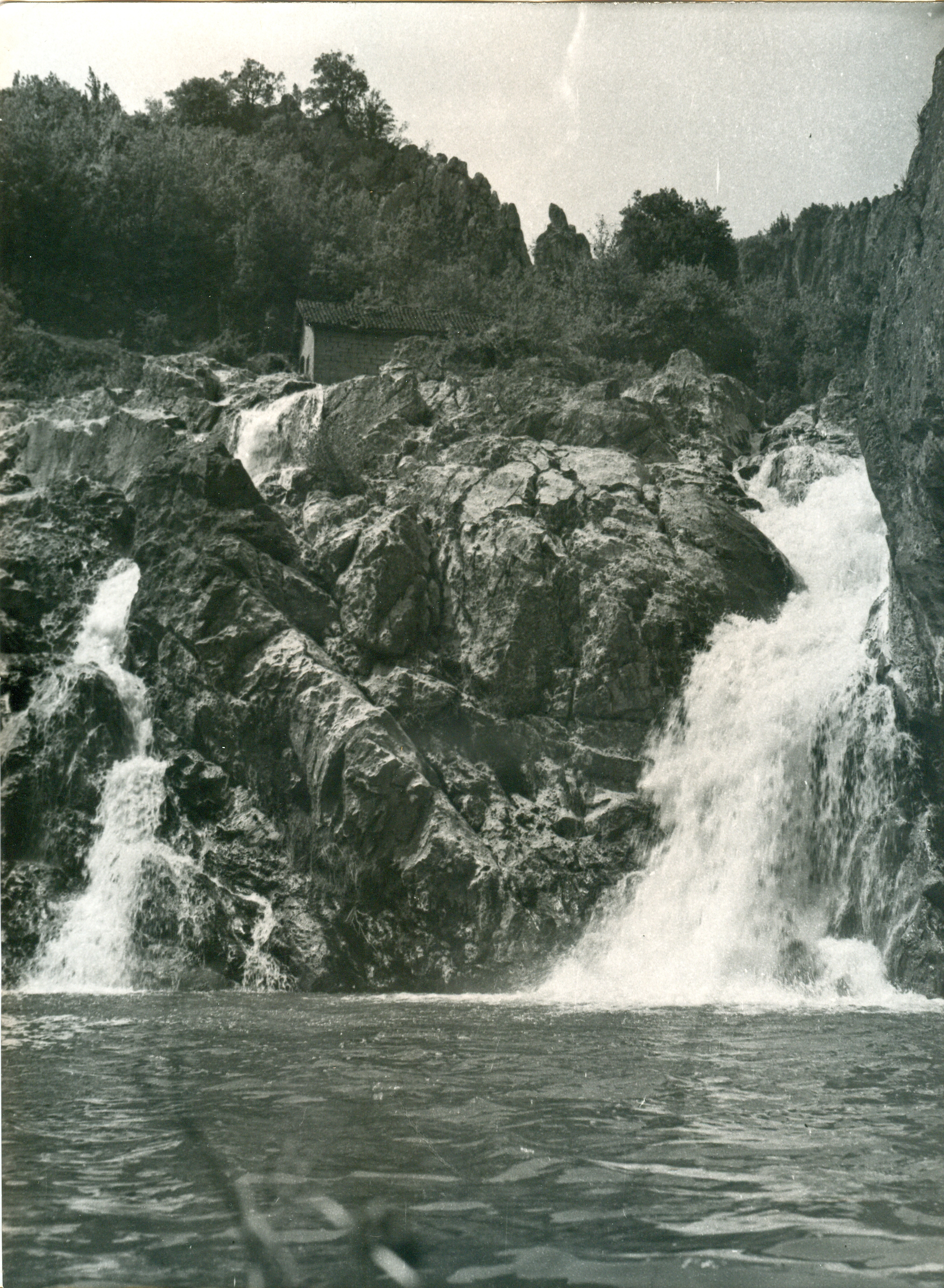 Waterfall Mokranje near Negotin, East Serbia Srpski (latinica): Vodopad na Mokranjskoj steni